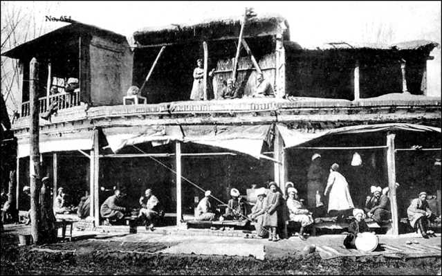 Teahouse in Tashkent